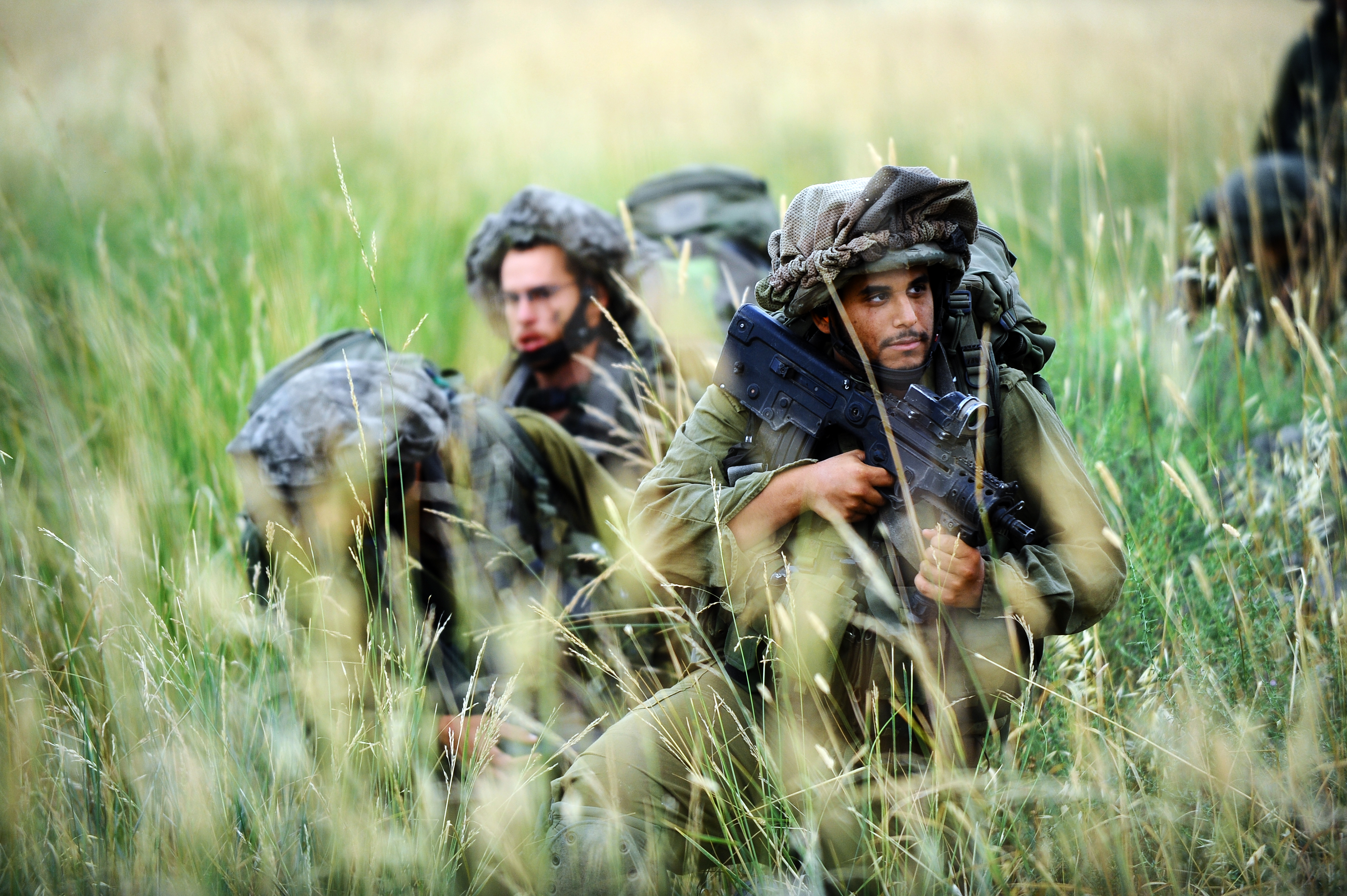 May 22, On May 22, the Nahal Brigade conducted a brigade-wide drill. The drill, also combining armored and air forces, tested the awareness and abilities of all of the brigade's soldiers. The Israel Defense Forces Facebook • blog • Twitter